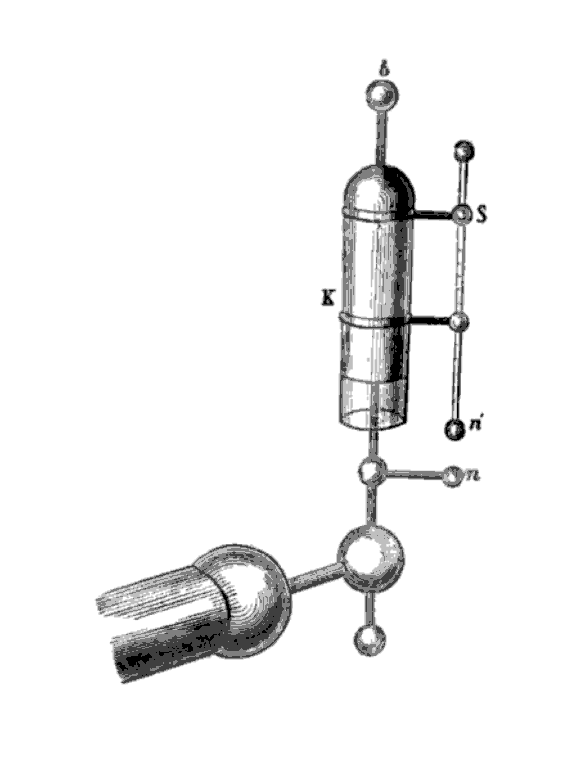 Drawing of a 'Harris jar' or 'unit jar', a small Leyden jar invented by British scientist William Snow Harris and used for measuring electric charge, attached to an electrostatic machine, from mid 1800s. Alterations: removed caption, and noise in white spaces. In operation, the top terminal (b) is attached to a load. The large bottom electrode is constantly being charged by the electrostatic machine, and the charge builds up on the Leyden jar (K). When the voltage reaches the breakdown voltage of the adjustable spark gap (n,n') it sparks over and discharges the Leyden jar into the load. Then the jar charges up again and the process repeats. Since the same amount of charge is transferred with each spark, the total amount of charge going to the load can be found by counting the sparks.